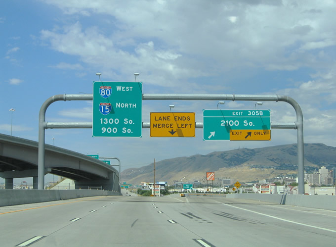 Taken by uploader, all rights released